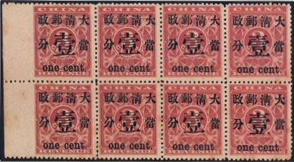 Red 42